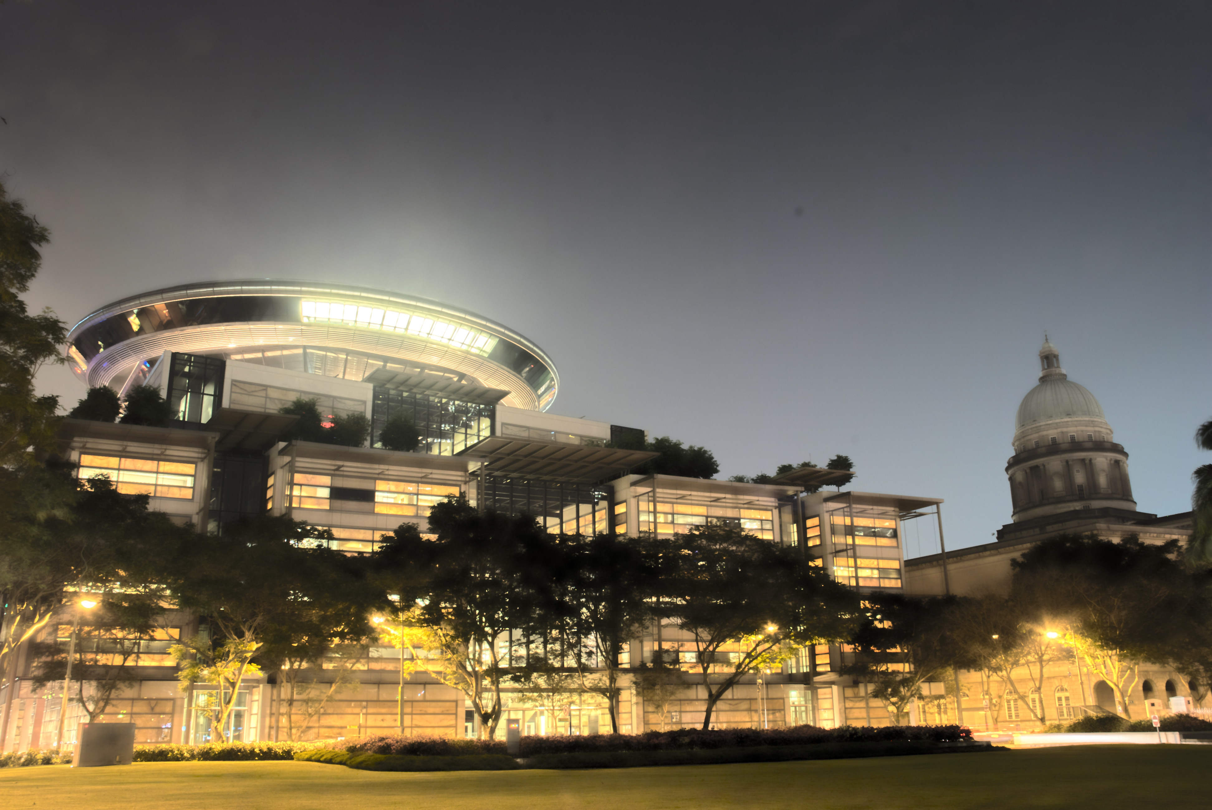 The new and old buildings of the Supreme Court of Singapore (on the left and right respectively), photographed using high dynamic range imaging (HDR).